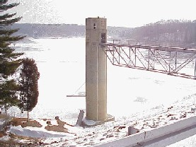 Cagles Mill Lake as seen from the dam that creates the reservoir.